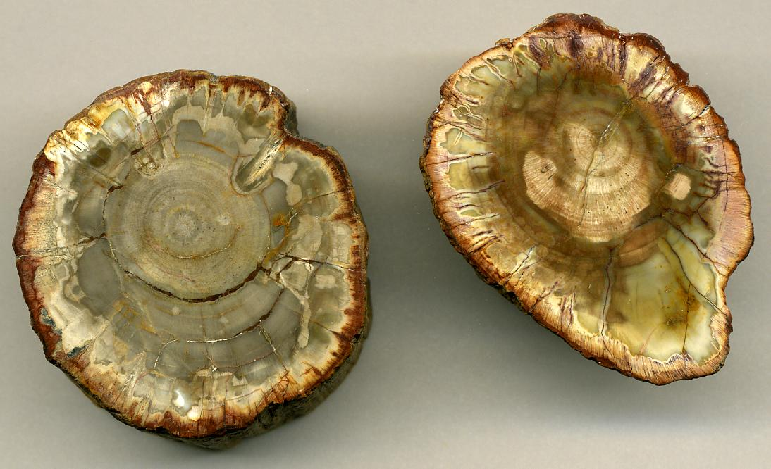 Permineralized wood attributed to the Mesozoic of Madagascar. (left: 3.6 cm across; right: 3.3 cm across) Plants are multicellular, photosynthetic eucaryotes. The oldest known land plant body fossils are Silurian in age. Fossil root traces of land plants are known back in the Ordovician. The Devonian was the key time interval during which land plants flourished and Earth experienced its first “greening” of the land. The earliest land plants were small and simple and probably remained close to bodies of water. By the Late Devonian, land plants had evolved large, tree-sized bodies and the first-ever forests appeared. The fossils shown above are "petrified wood", which is a horrible term for what is technically called permineralization. Biogenic materials such as wood or bone have a fair amount of small-scale porosity. After burial, the porosity of wood or bone can get partially or completely filled up with minerals as groundwater or diagenetic fluids percolate through. The end result is a harder, denser material that retains the original three-dimensionality (or close to it). The wood or bone has become “petrified”. Well, no - it’s become permineralized. Not surprisingly, the most common permineralization mineral is quartz (SiO2). Sometimes, fossil wood and bone have been permineralized with radioactive minerals such as black uraninite (UO2) or yellowish carnotite (K2(UO2)2(VO4)2·3H2O). Recently, fossil bones permineralized with cinnabar have been identified (García-Alix et al., 2013, Lethaia 46: 1-6). These small pieces of fossil wood have preserved bark & tree ring structures.